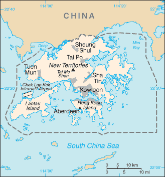 Map of Hong Kong showing major cities